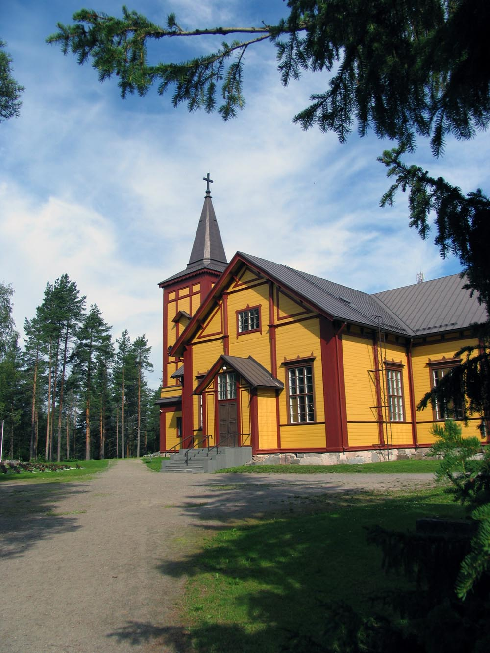 Sievi Church in Sievi, Finland. The church was designed by architect L.I. Lindqvist and it was completed in 1861.